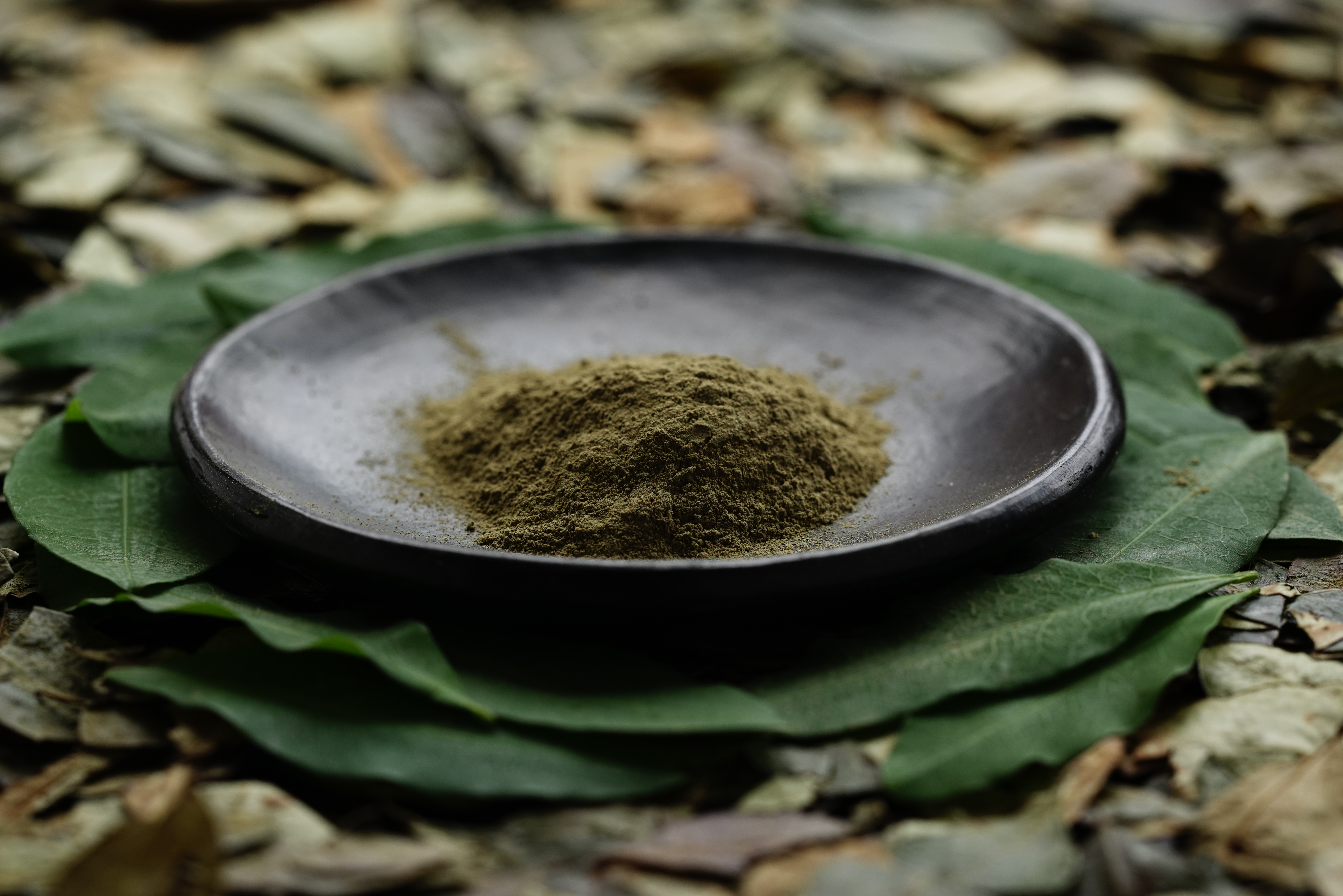 Coca indigenous mambe